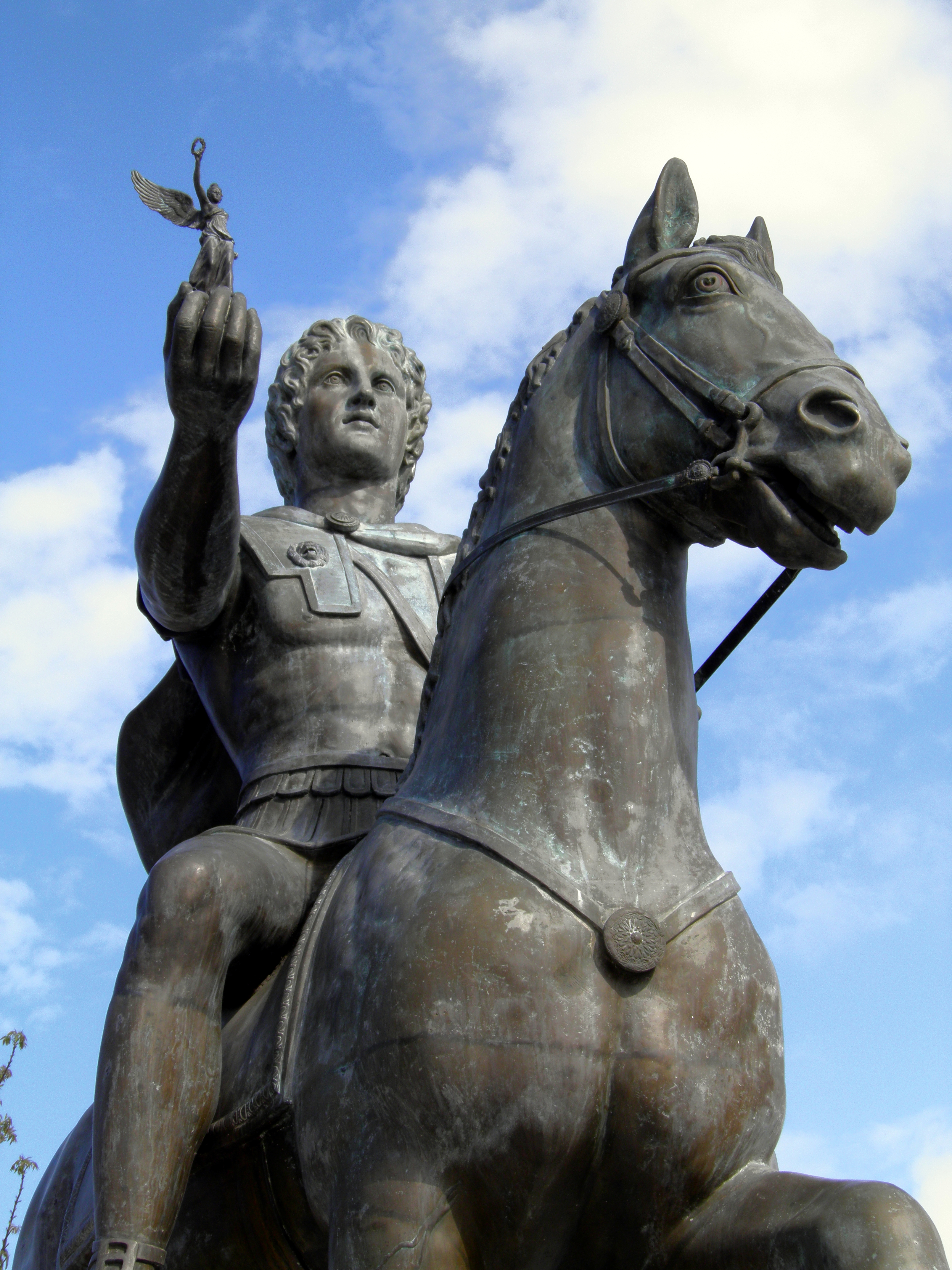 Statue of Alexander the Great riding Bucephalus and carrying a winged statue of Nike (square of Alexander the Great) in Pella city